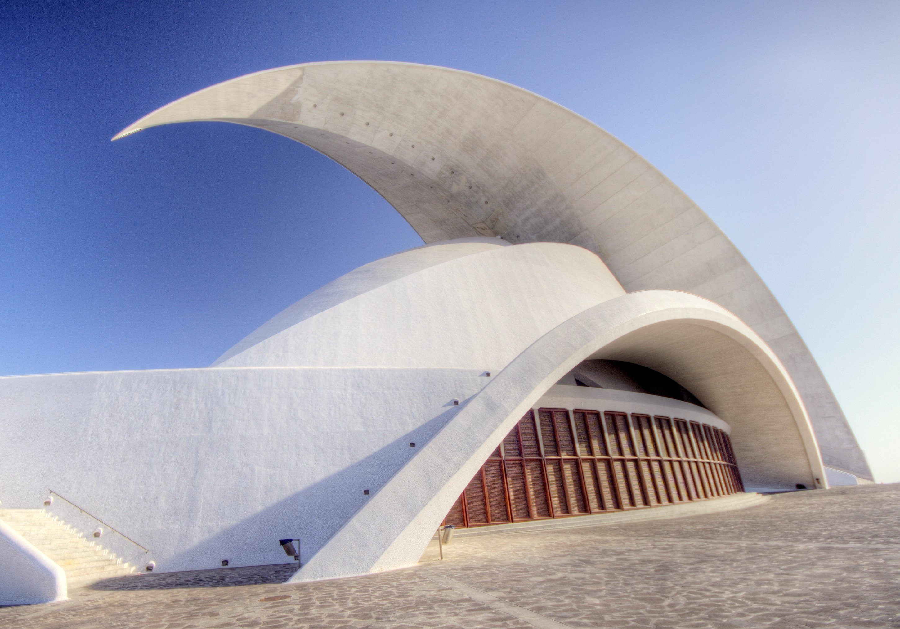 The Auditorio de Tenerife is a Concerthall in Santa Cruz de Tenerife designed by Santiago Calatrava.